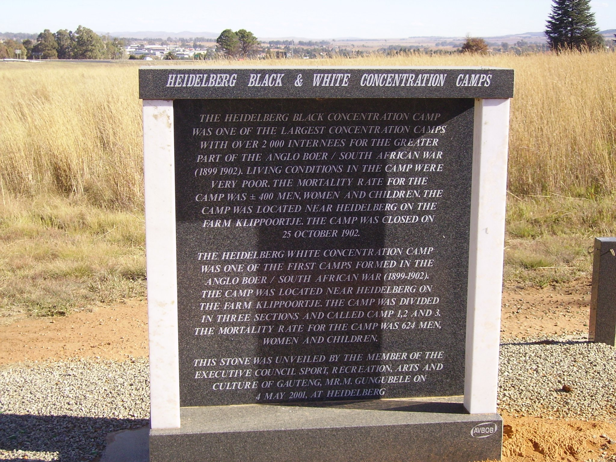 Heidelberg, Gauteng.